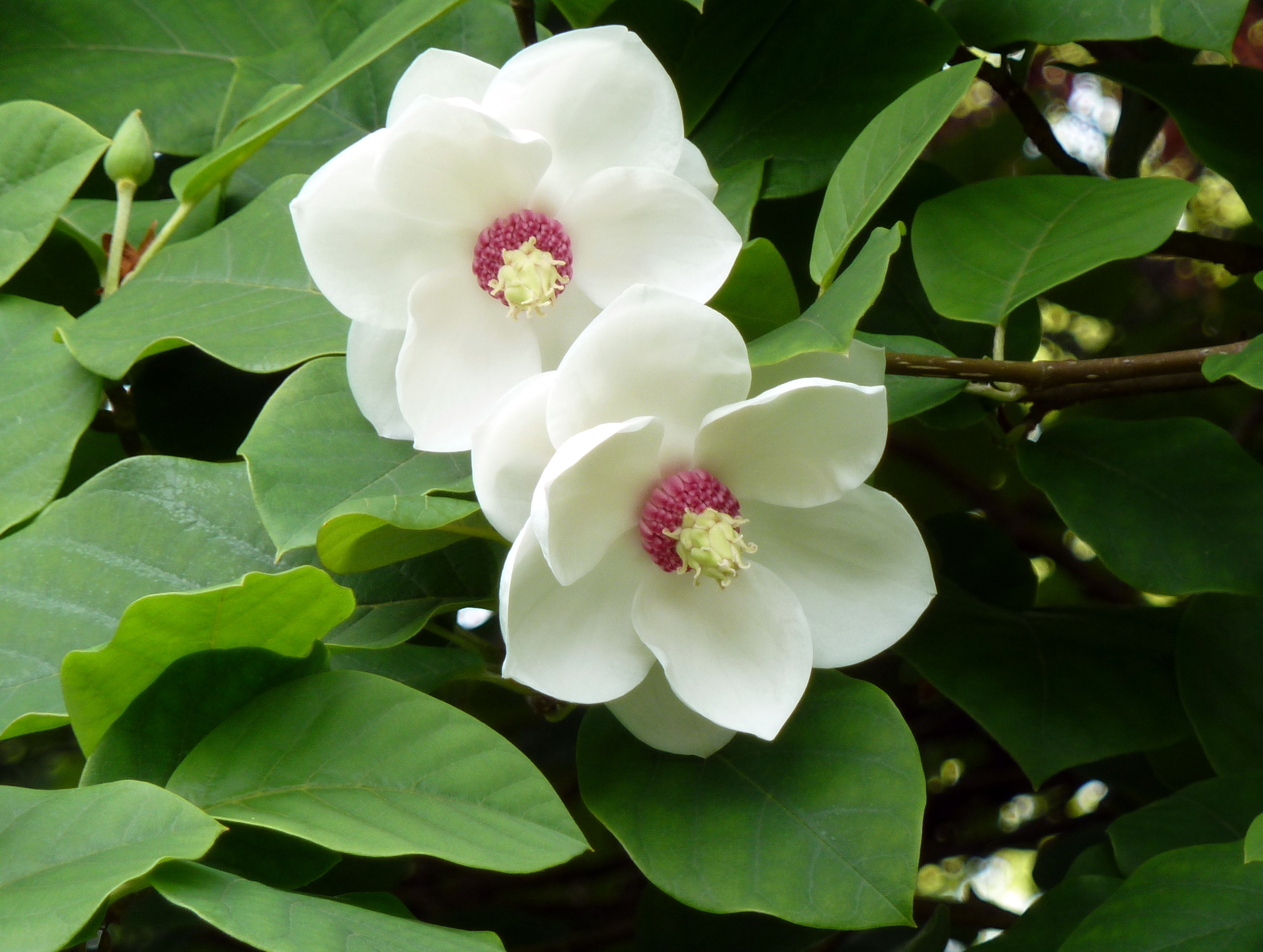 I missed getting these uploaded in May. Magnolia sieboldi,i oyama magnolia, on the Camellia Path in Stanley Park.